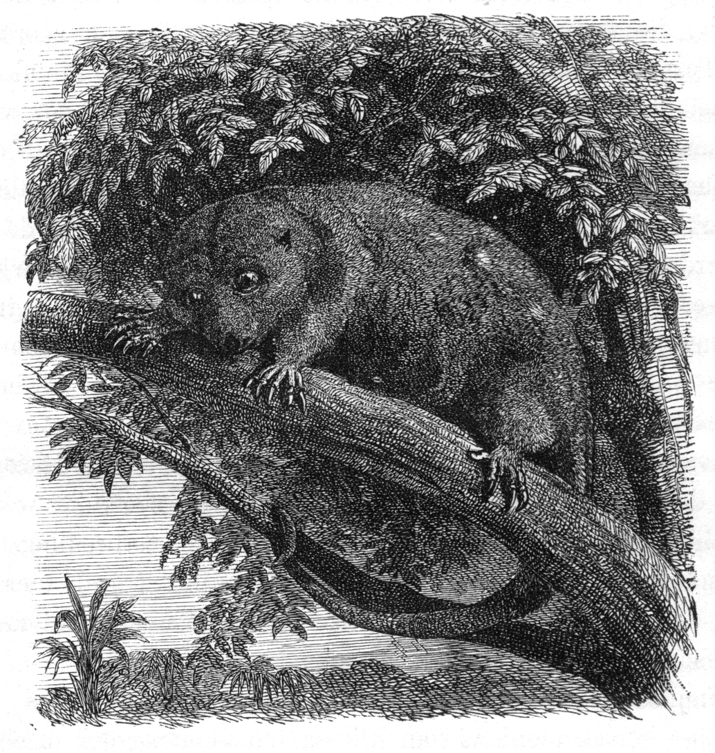 Caption reads "Cuscus ornatus", a Moluccan marsupial